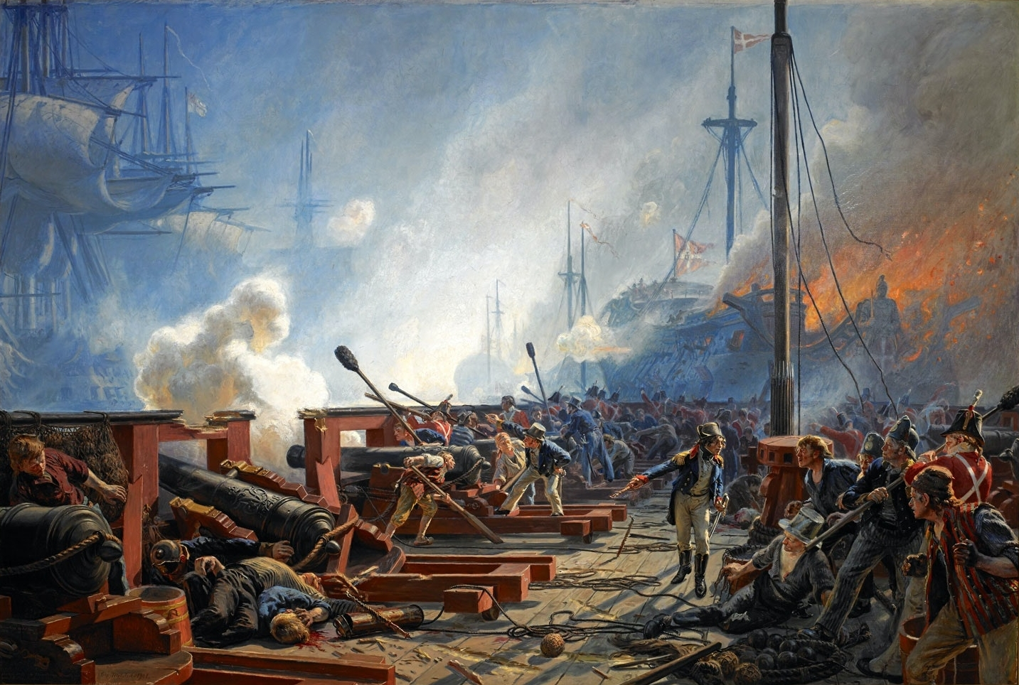 The extremely young Sub-lieutenant Peter Willemoes putting heart into his men on his floating naval battery. Willemoesgaardens Mindestuer, Assens.